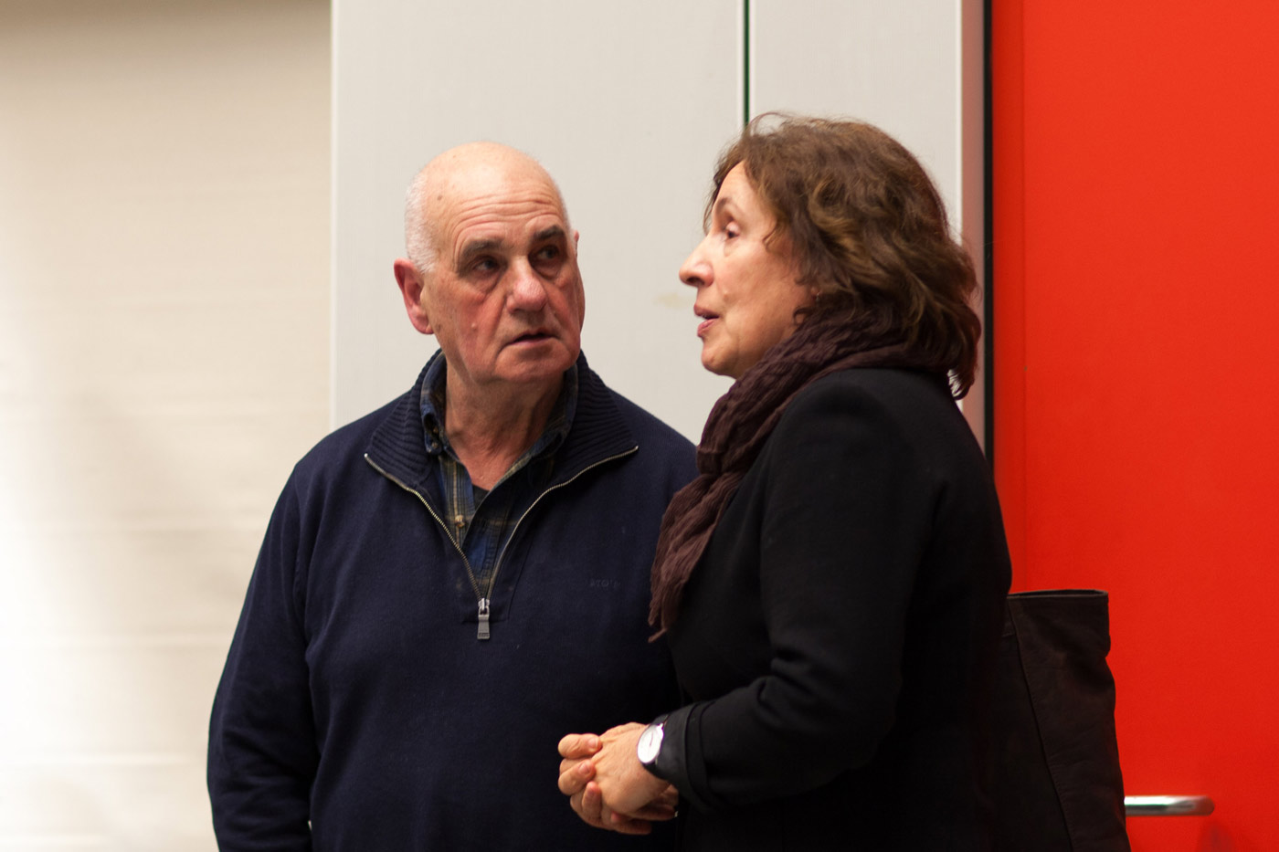 The german author Lothar Trolle and the Deutschlandfunk editor Elisabeth Panknin in a studio in Cologne, photographed in January 2014 by Maximilian Schönherr.